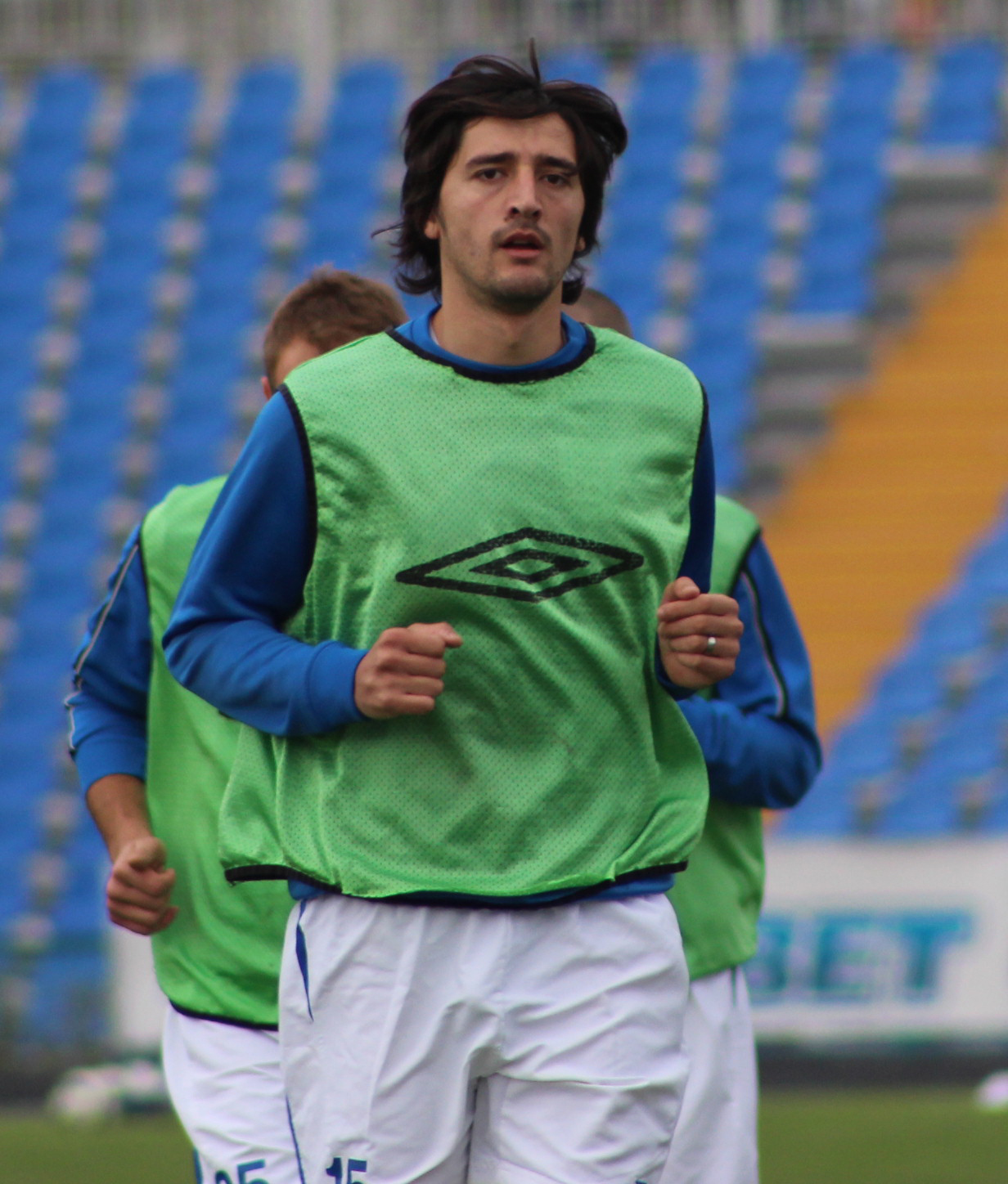 Dmitrii Vladov